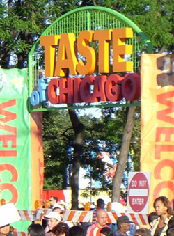 Taste of Chicago